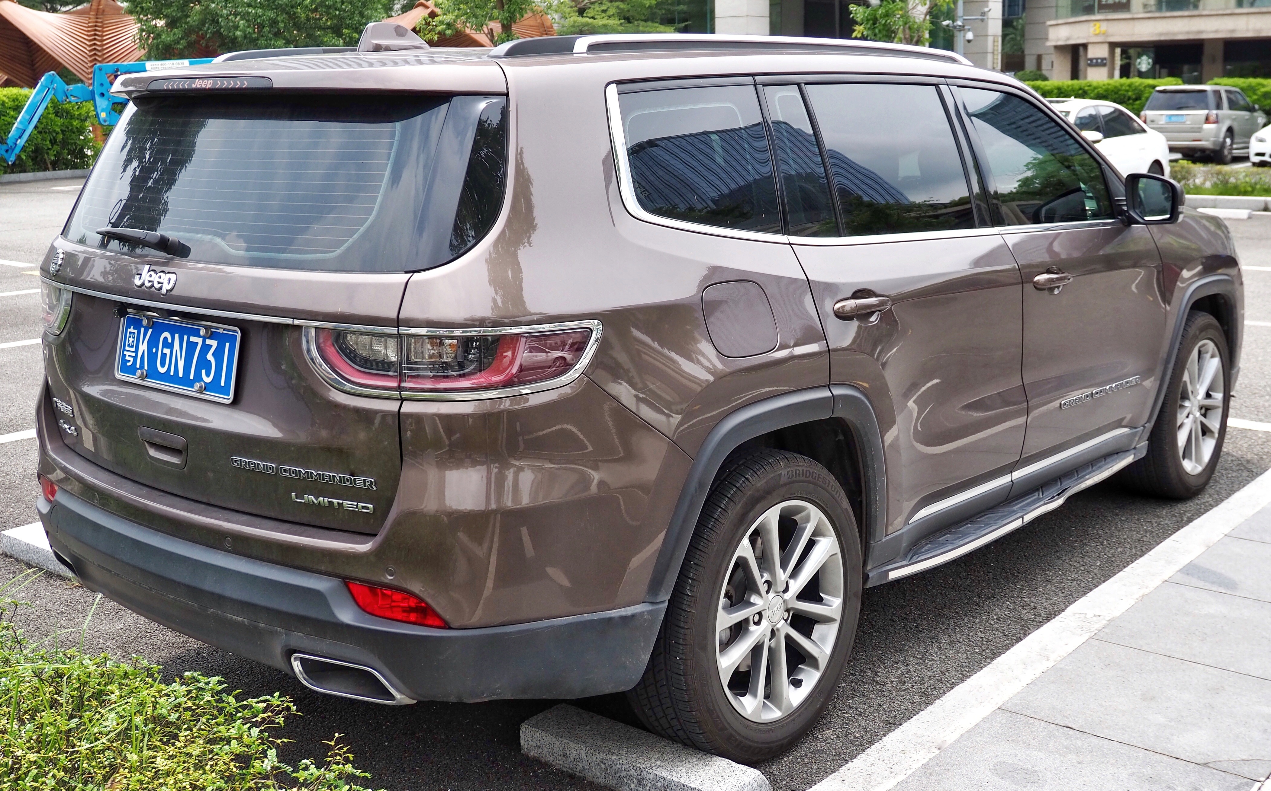 A 2018 Jeep Grand Commander (badged as GAC-Fiat-Chrysler) taken in Zhuhai, Guangdong province, China.